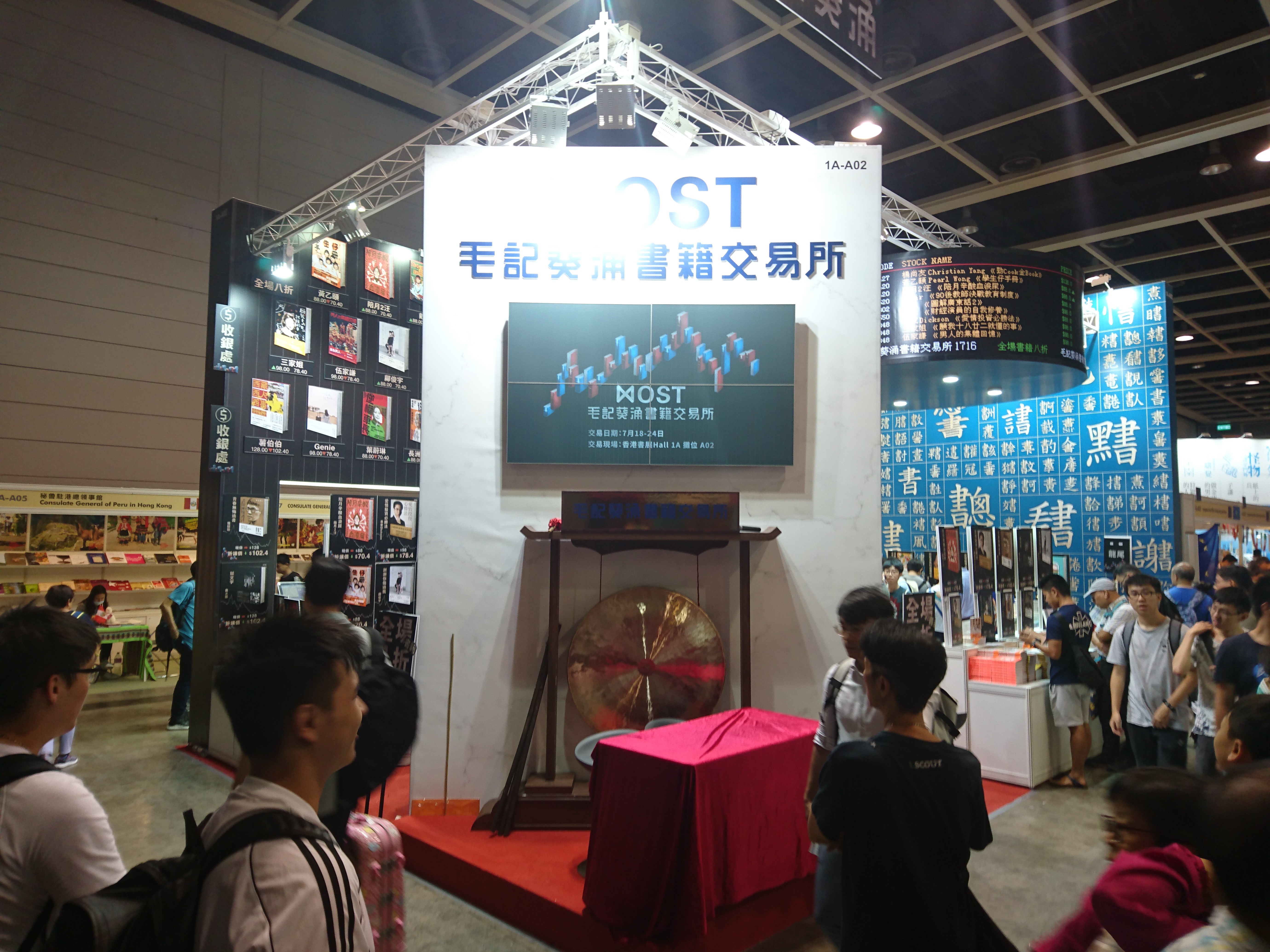 TVMost Booth in Hong Kong Book Fair 2018